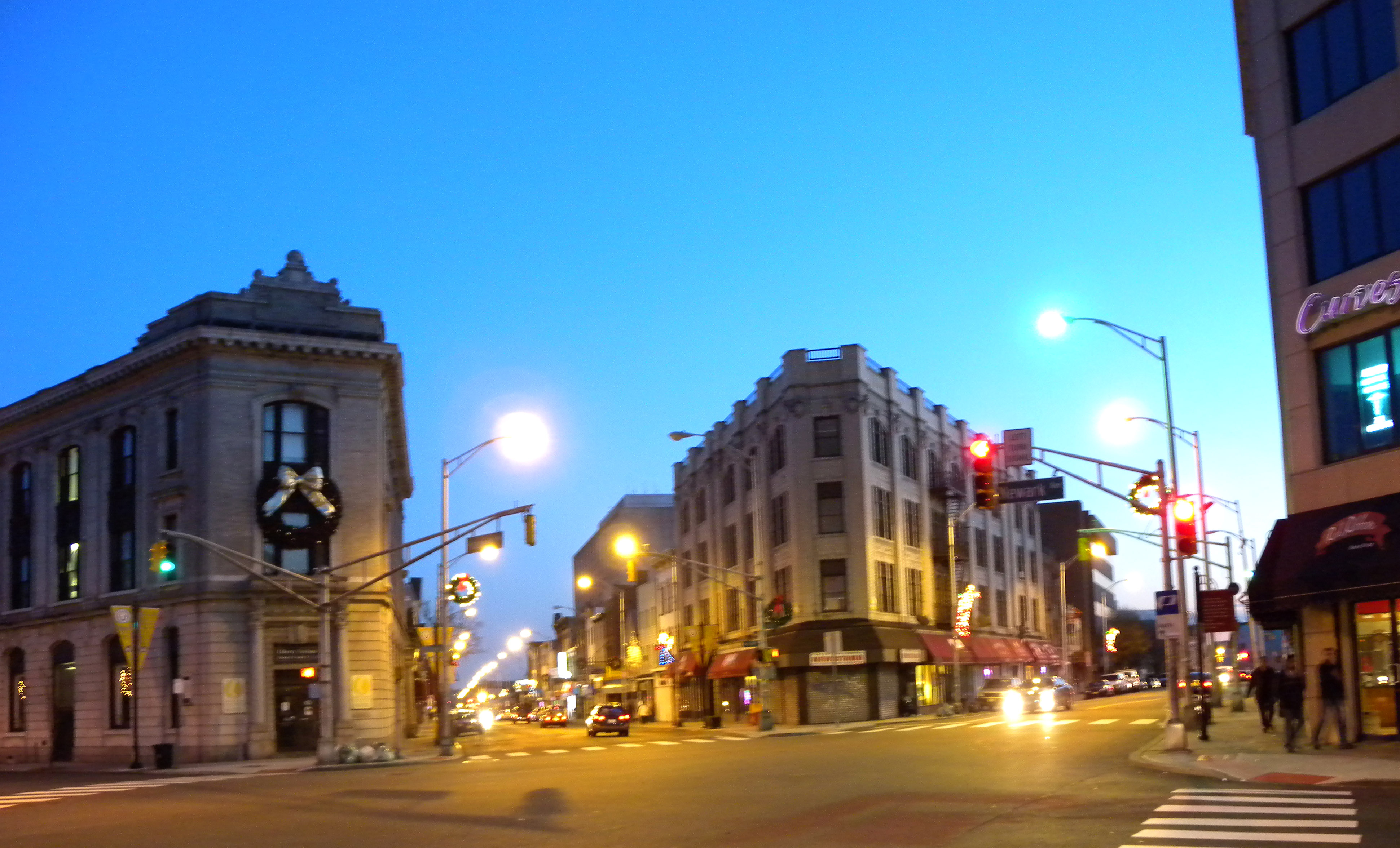 Looking south at Five Corners, Jersey City in twilite after a sunny day.